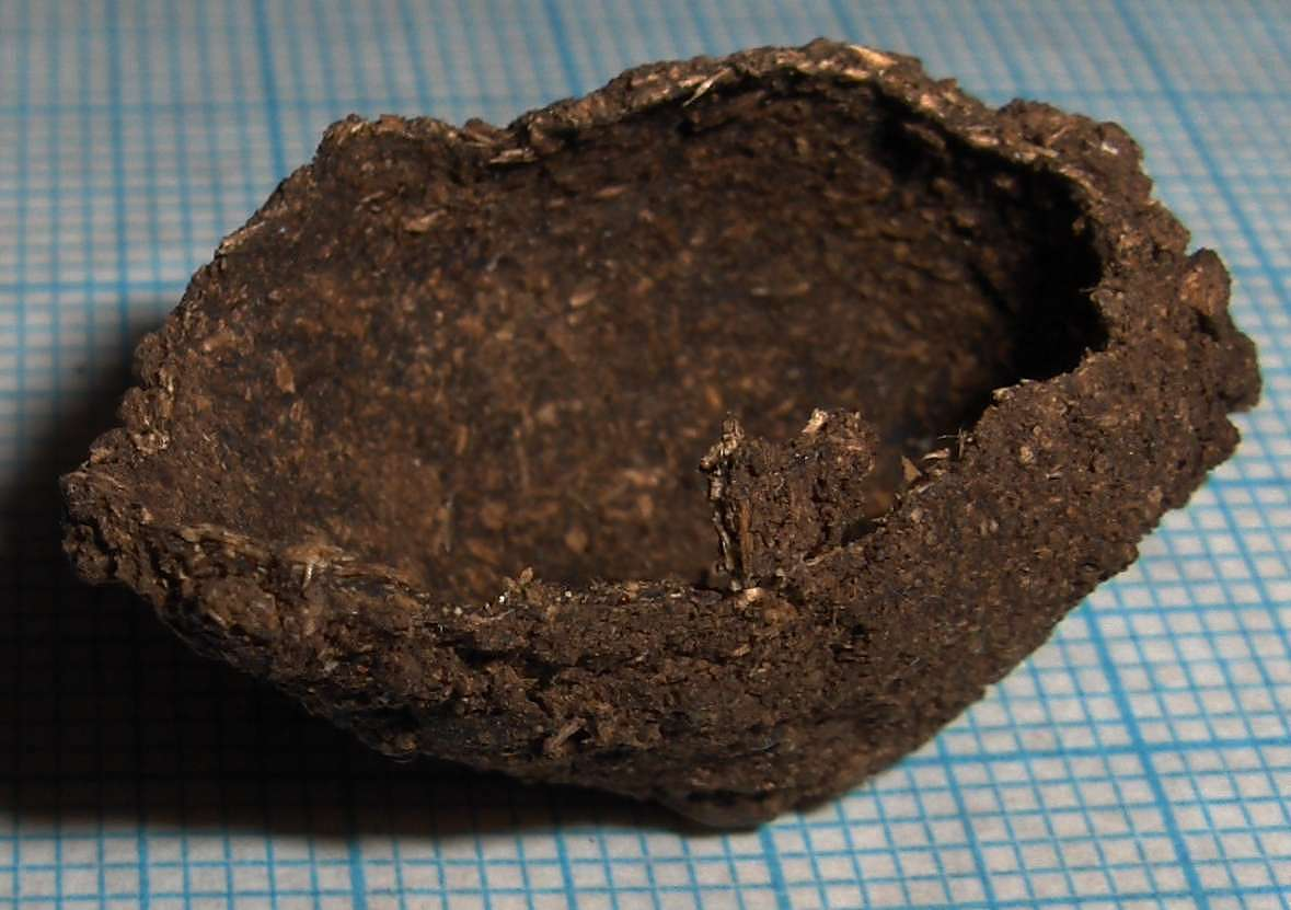 Left cocoon of Osmoderma eremita